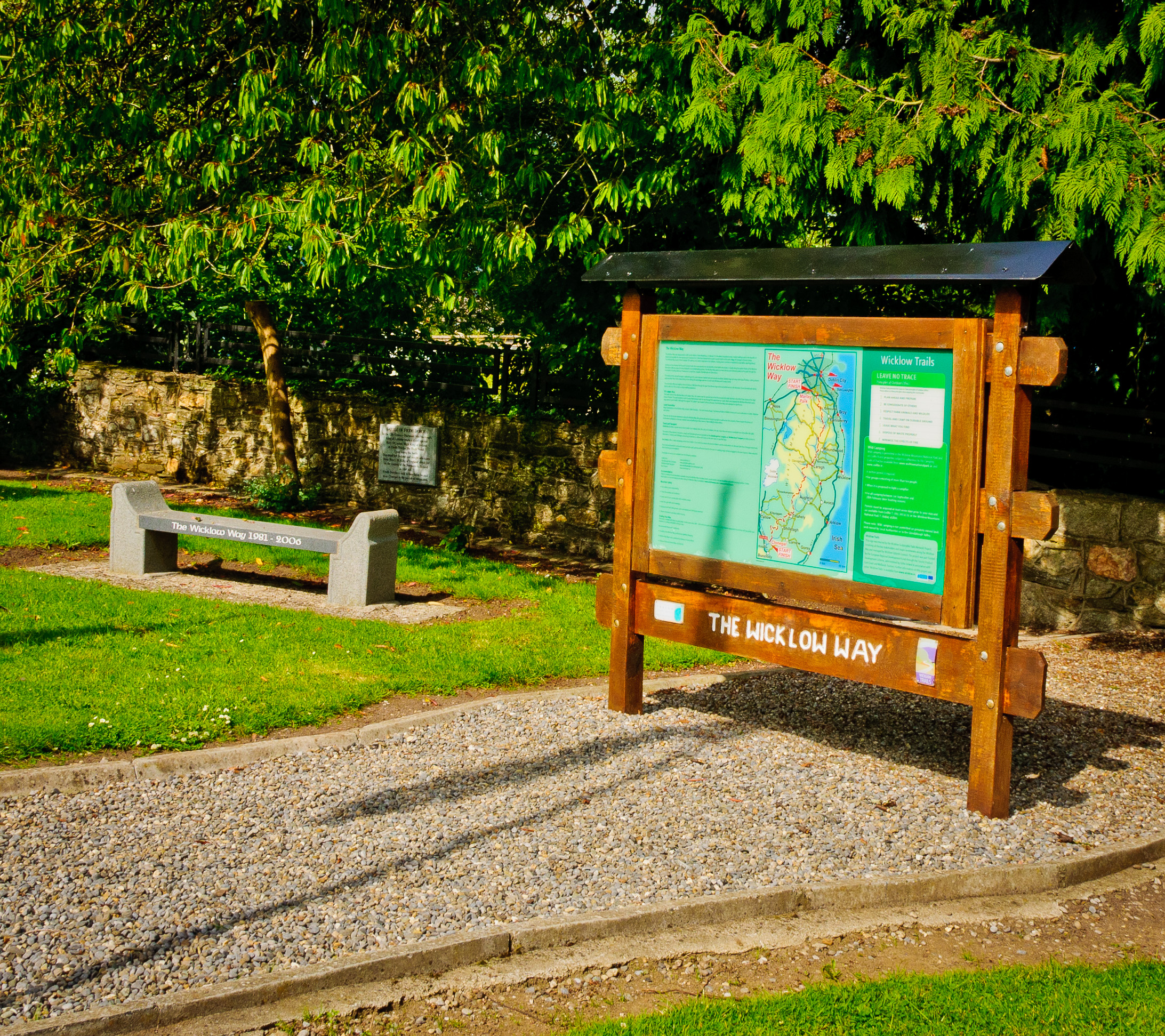 The trailhead of the Wicklow Way in Clonegal, County Carlow, Ireland. The Wicklow Way is a 132km long-distance National Waymarked Trail that runs from Marlay Park in County Dublin across County Wicklow and ends at Clonegal in County Carlow. The trailhead is denoted by a map board and a stone bench. The bench was erected in 2006 as part of a series of works to mark the 25th anniversary of the opening of the Way.